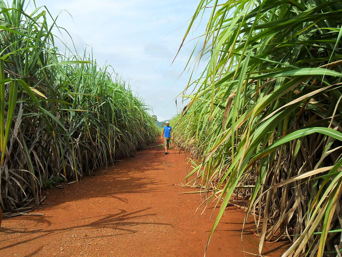 Sugar cane farm in southeast-asia